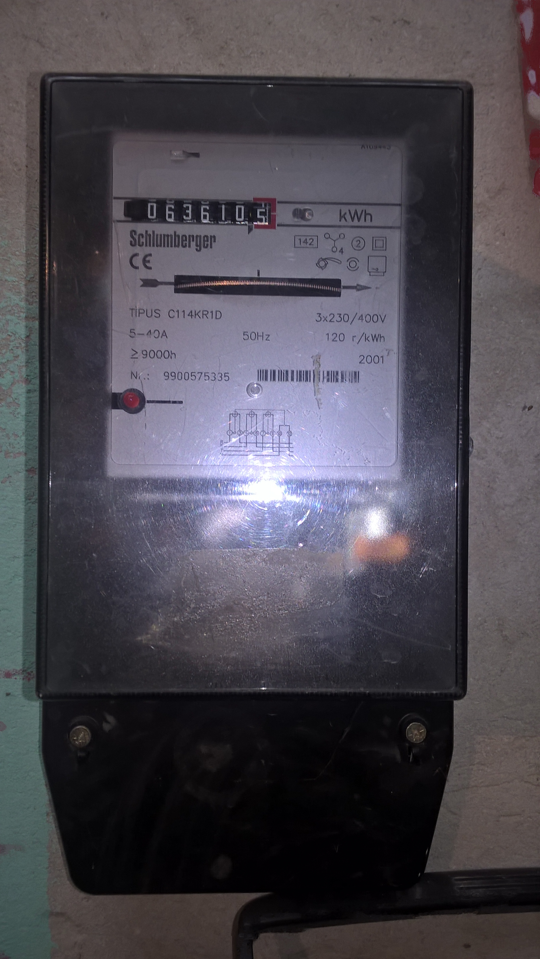 Three-Phase Electricity Meter